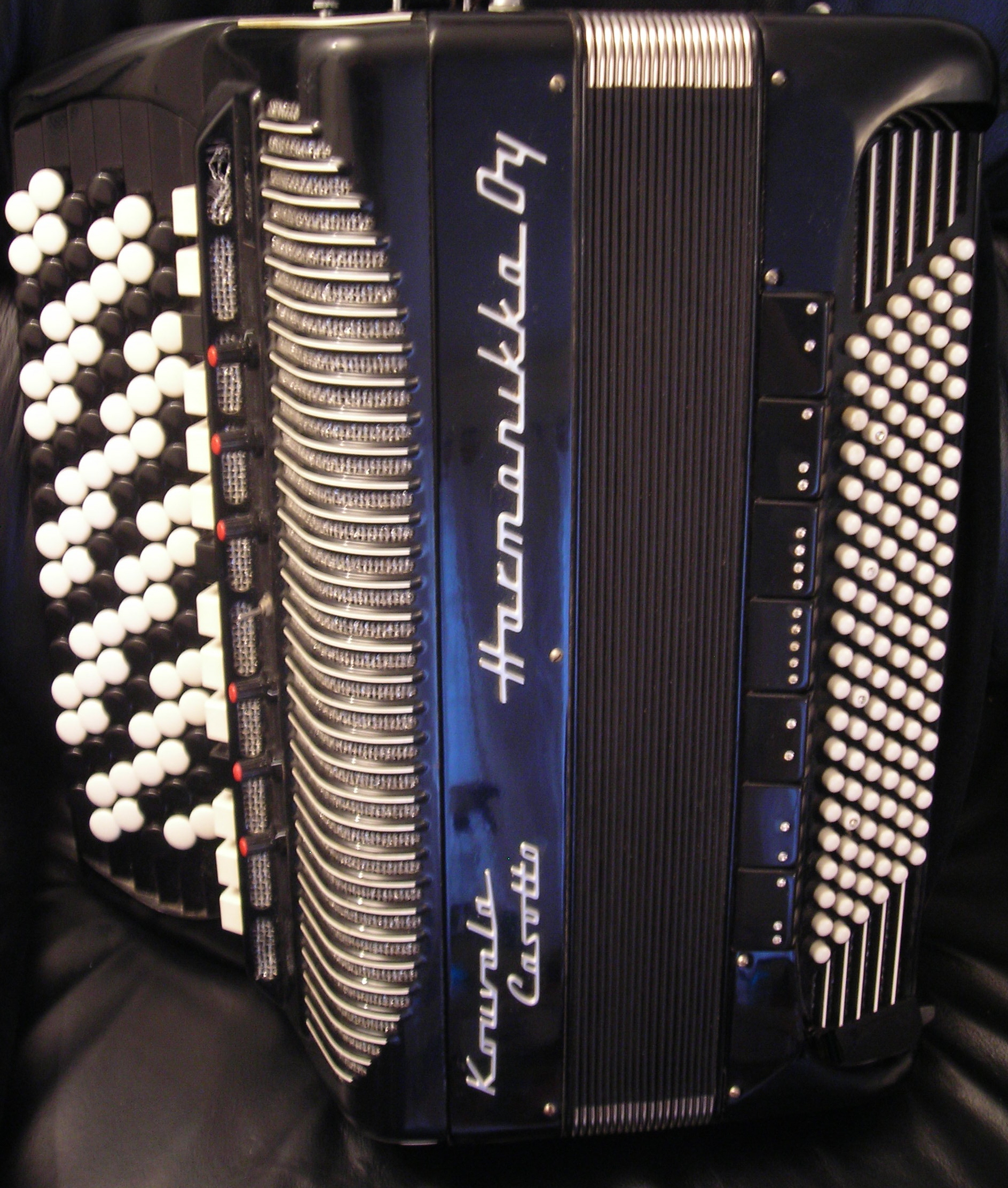 A Finnish Kouvola Cassotto 6-row button accordion from 1983, manufactured by Harmonikka Oy, Kouvola, Finland (Kouvolan harmonikkatehdas)